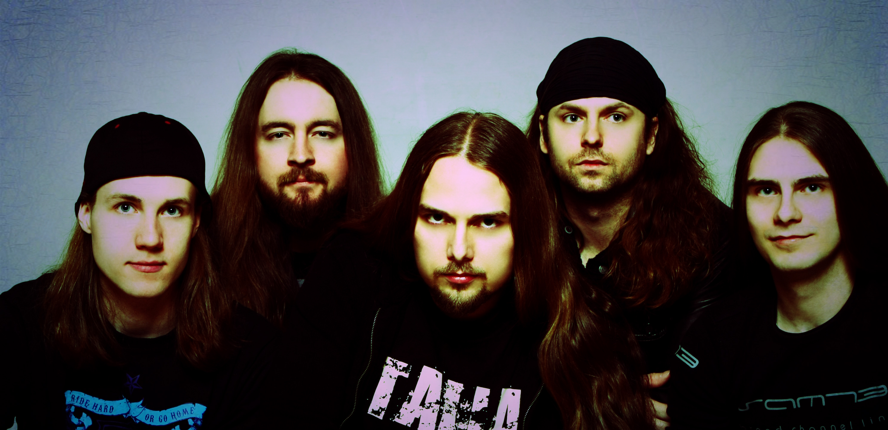 Venefica band